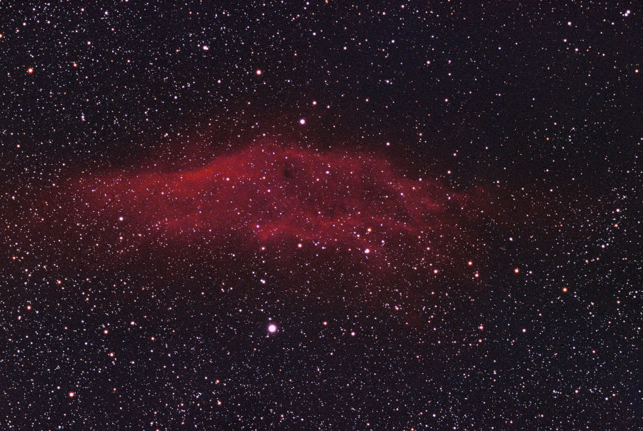 Gas nebula NGC 1499 or also called California nebula after its shape that is formed like California, photographed at La Palma, Roque de los Muchachos (Degollada de los Franceses). Photo taken the following equipement: Camera/Telecope: Pentax SDHF 500 6.7/500 on GP/DX, tracing ST4 at 600mm (Sonnar 4/300 with 2x tele converter) Exposure: 45 min Film: Kodak E200 35mm (Push to 600 ASA) Scanner: Scan service Processing: Removed vignetting, colour and contrast correction. additional remark: faintest object visible at 6.5 mag